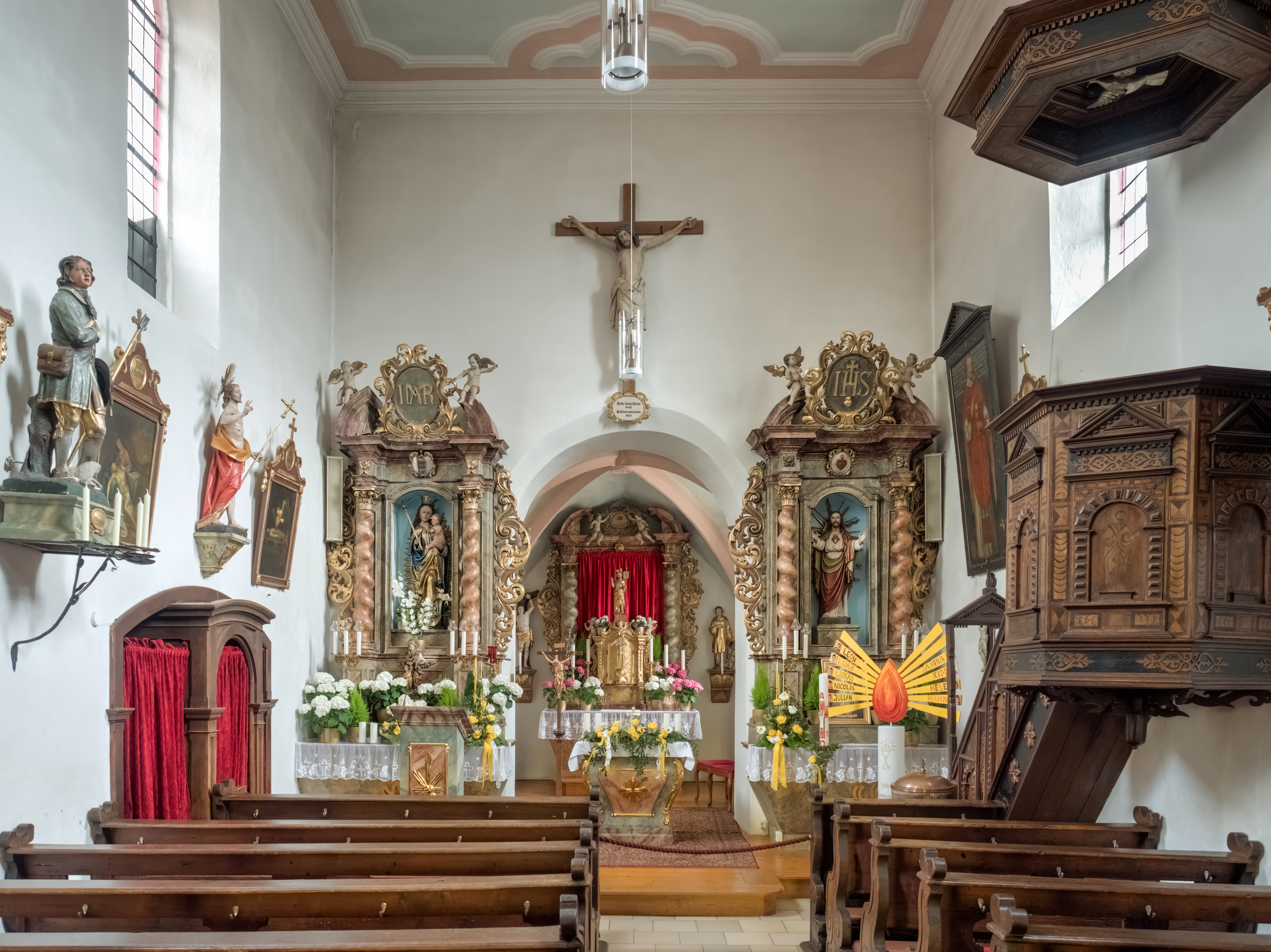 Catholic parish church of St. Bartolomäus in Willersdorf (Hallerndorf)